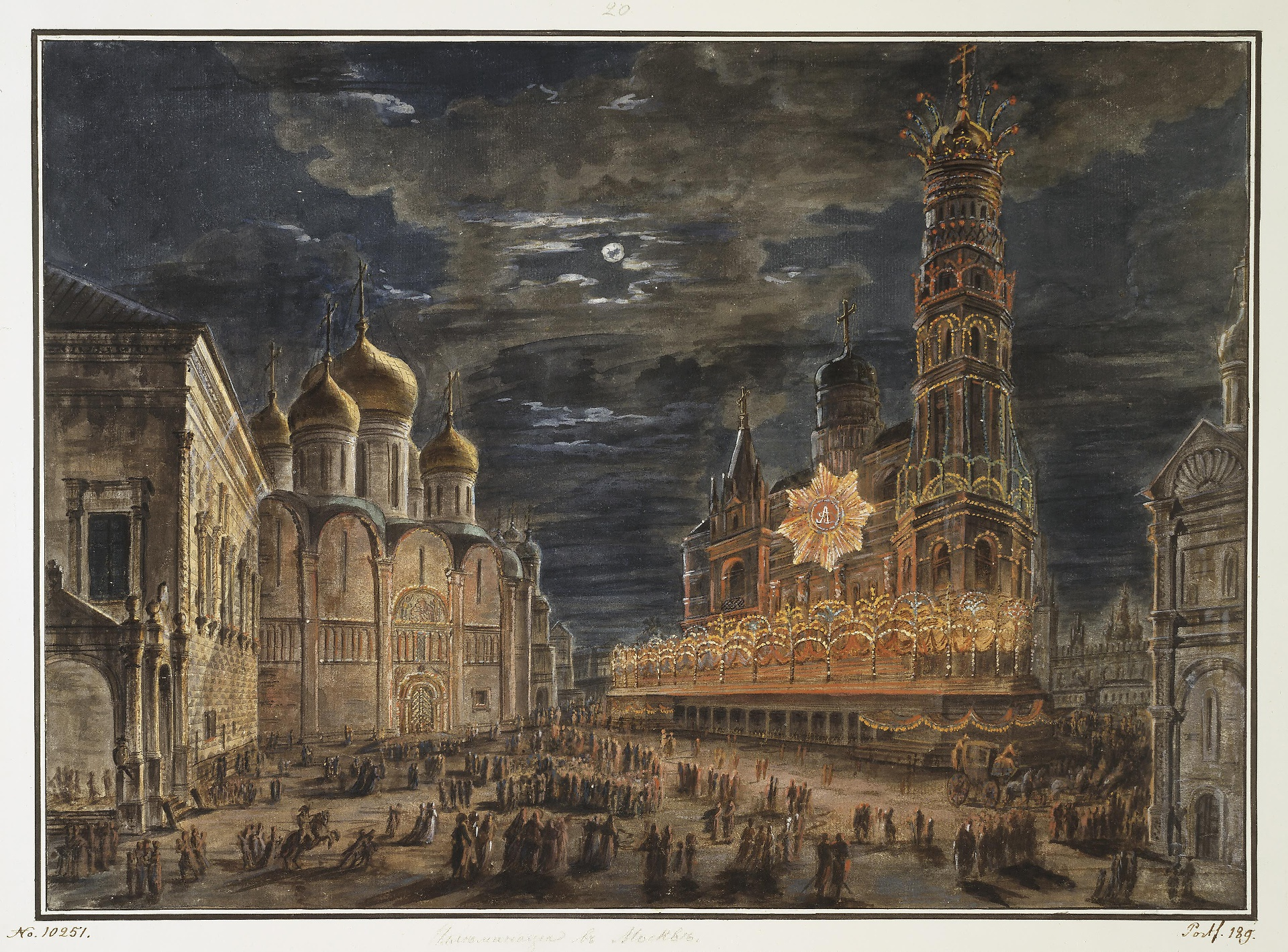 Illumination at Soboronaya Square on the occasion of the coronation of Alexander I Artist